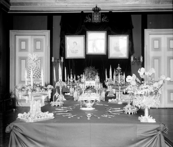 The Service of the Viscounts of São João da Pesqueira, photographed in 1908 by Aurélio da Paz dos Reis.